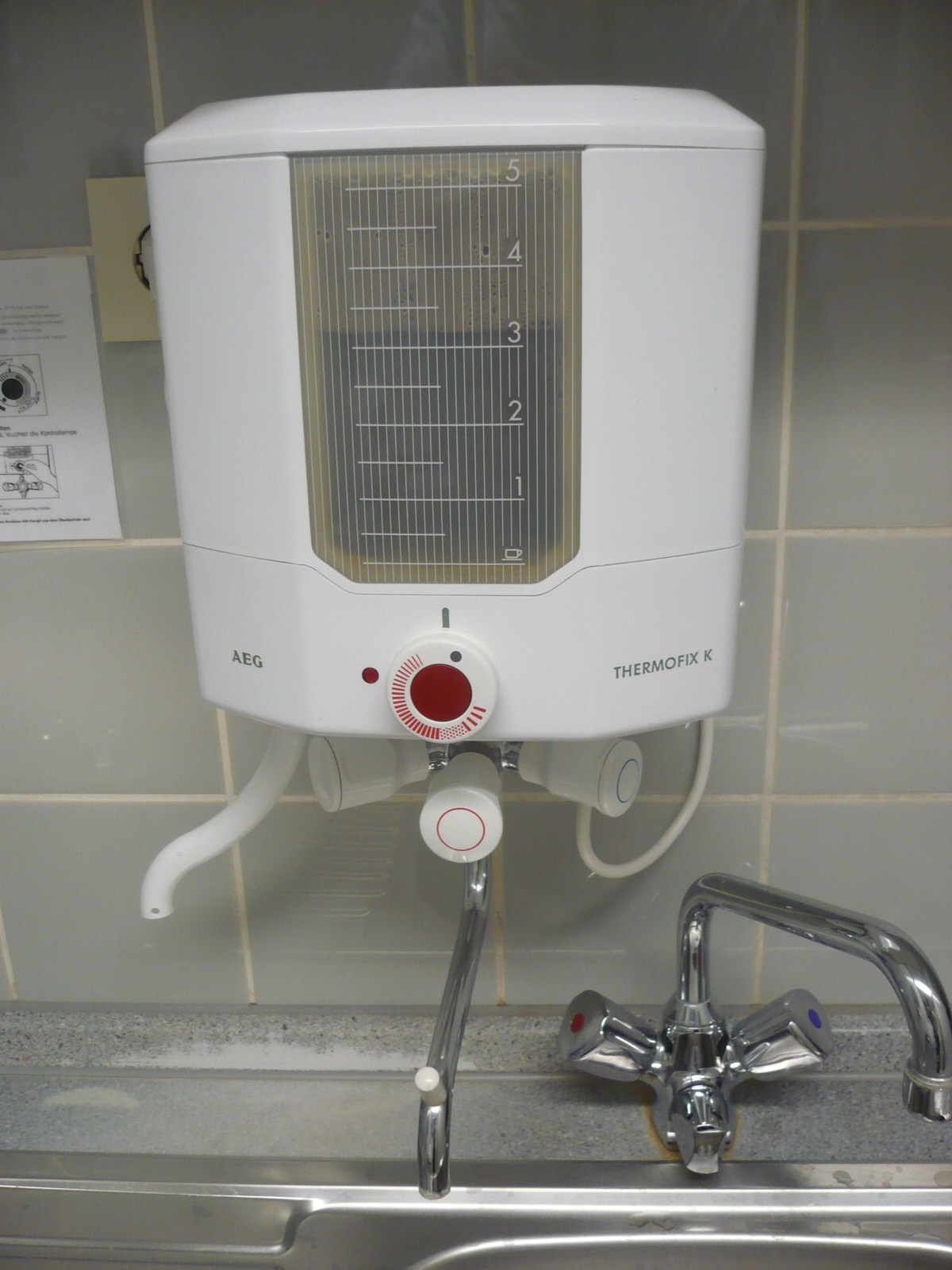 Stationary installed electric water boiler